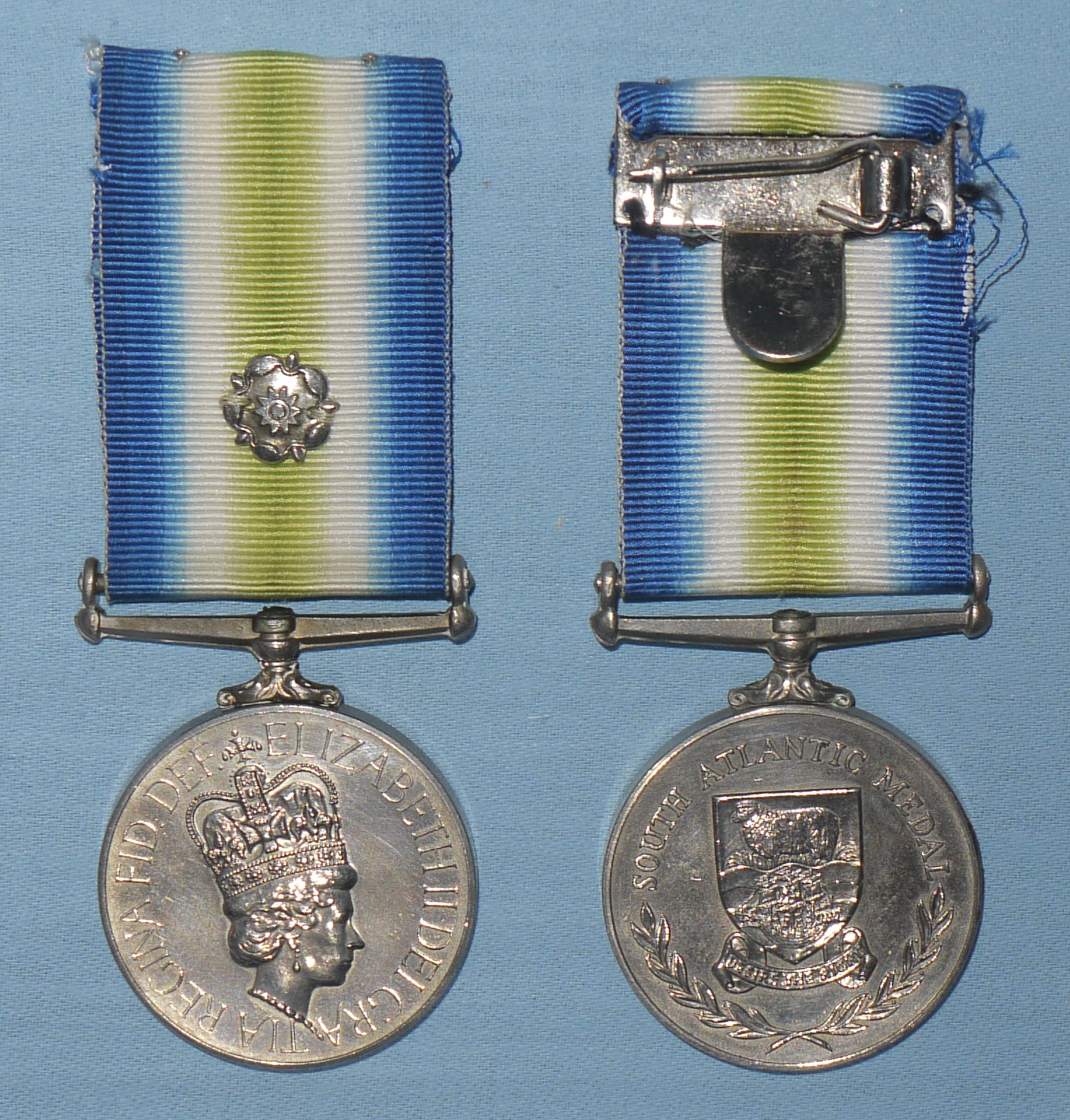 Photo of a pair of south Atlantic campaign medals. The one on the left was awarded to Able Seaman (radar) M P Warner. Aircraft engine mechanic S L martin. The one of the left shows the front of the medal and the rosette which was awarded for one full days service in the Falklands or south Georgia